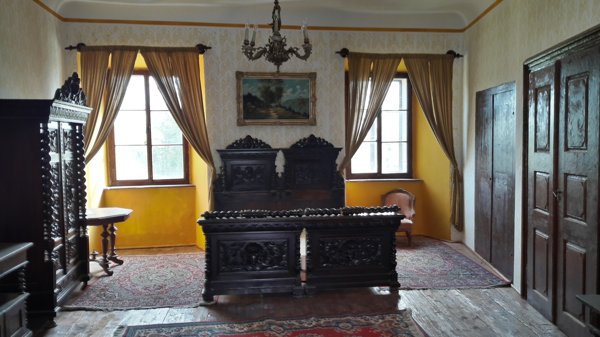 Room 3